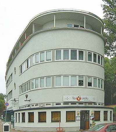 The "Rundling" building was designed by Ernst May, and is located in the Römerstadt section of Frankfurt. It has apartments and some shops on the ground floor. Shown here is the southern end with the establishment of the settlement at one designed restaurant. Photo taken from the bridge over the highway to the north-west of the city.